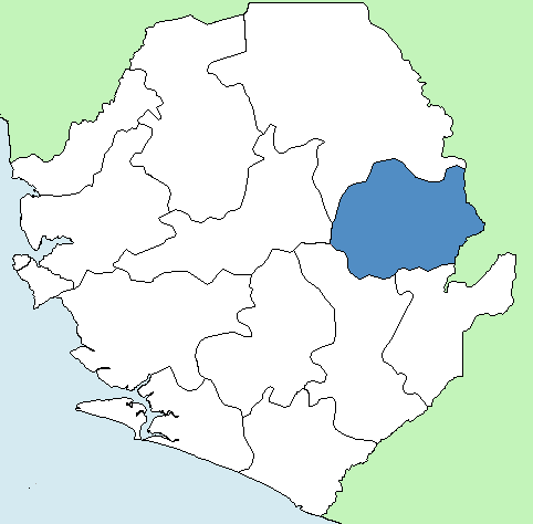 Map showing location of Kono District in Sierra Leone